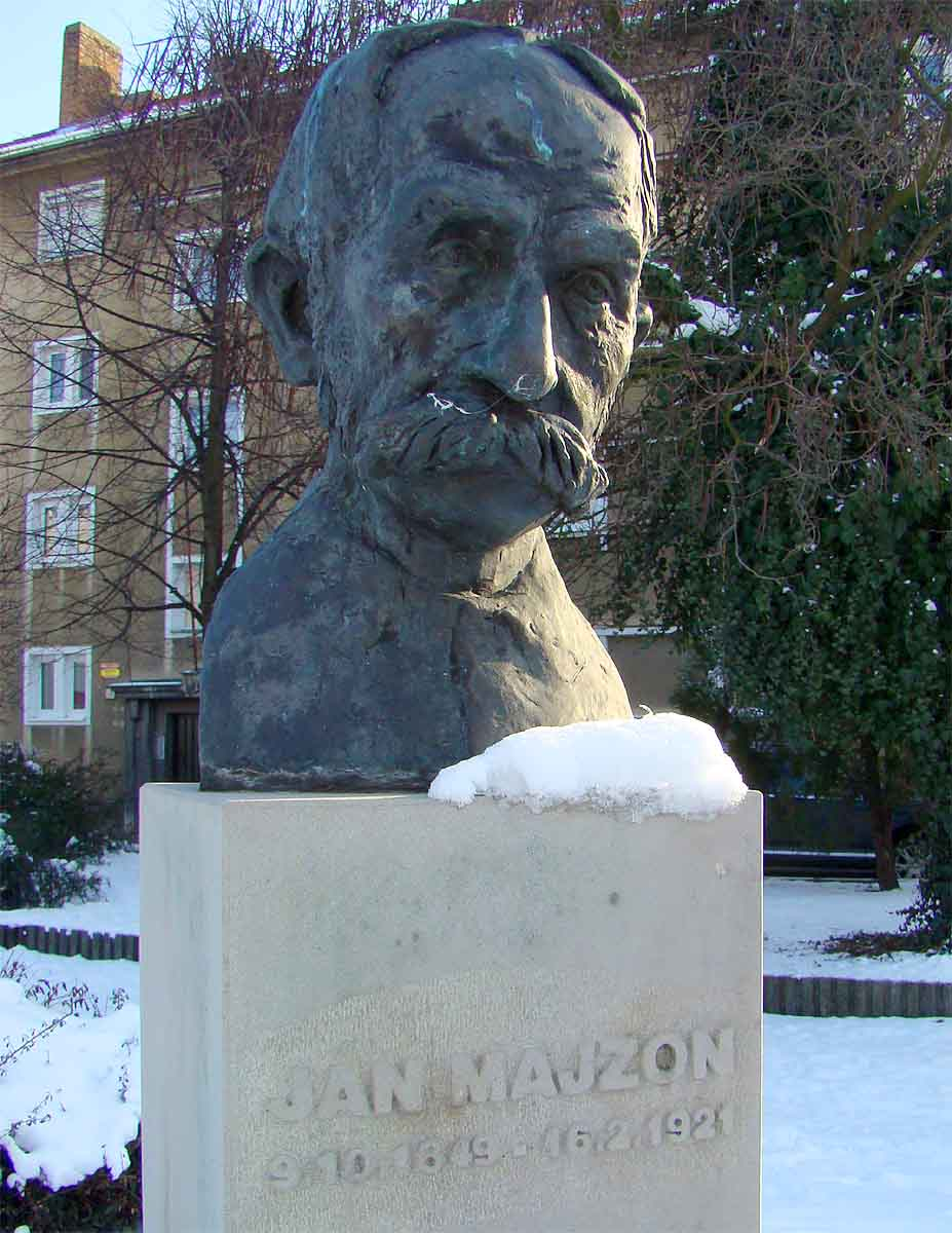 A bust of Ján Majzon in Nové Zámky, Slovakia